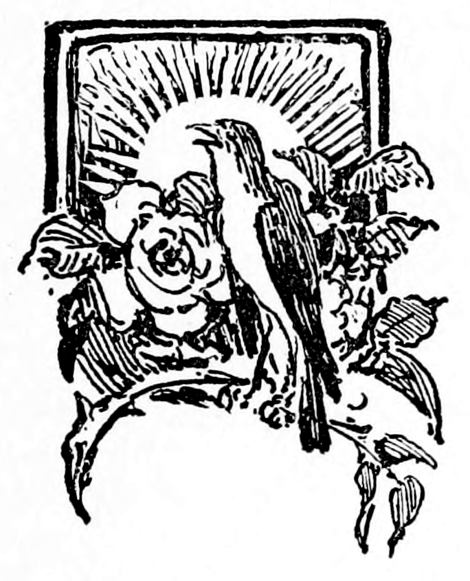 Illustration in Wilde's The Happy Prince and Other Tales. London: Nutt. 1st ed. Conversion: jp2 to png; greyscale; black and white point levels.